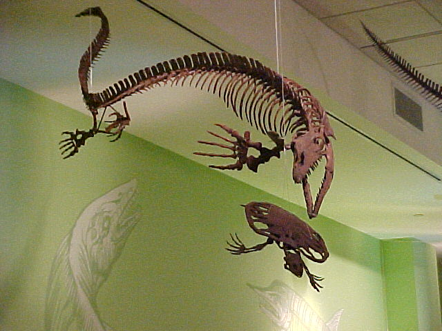 Clidastes liodontus and a toxochelyid turtle Taken 12/6/01, Atlanta, Georgia.